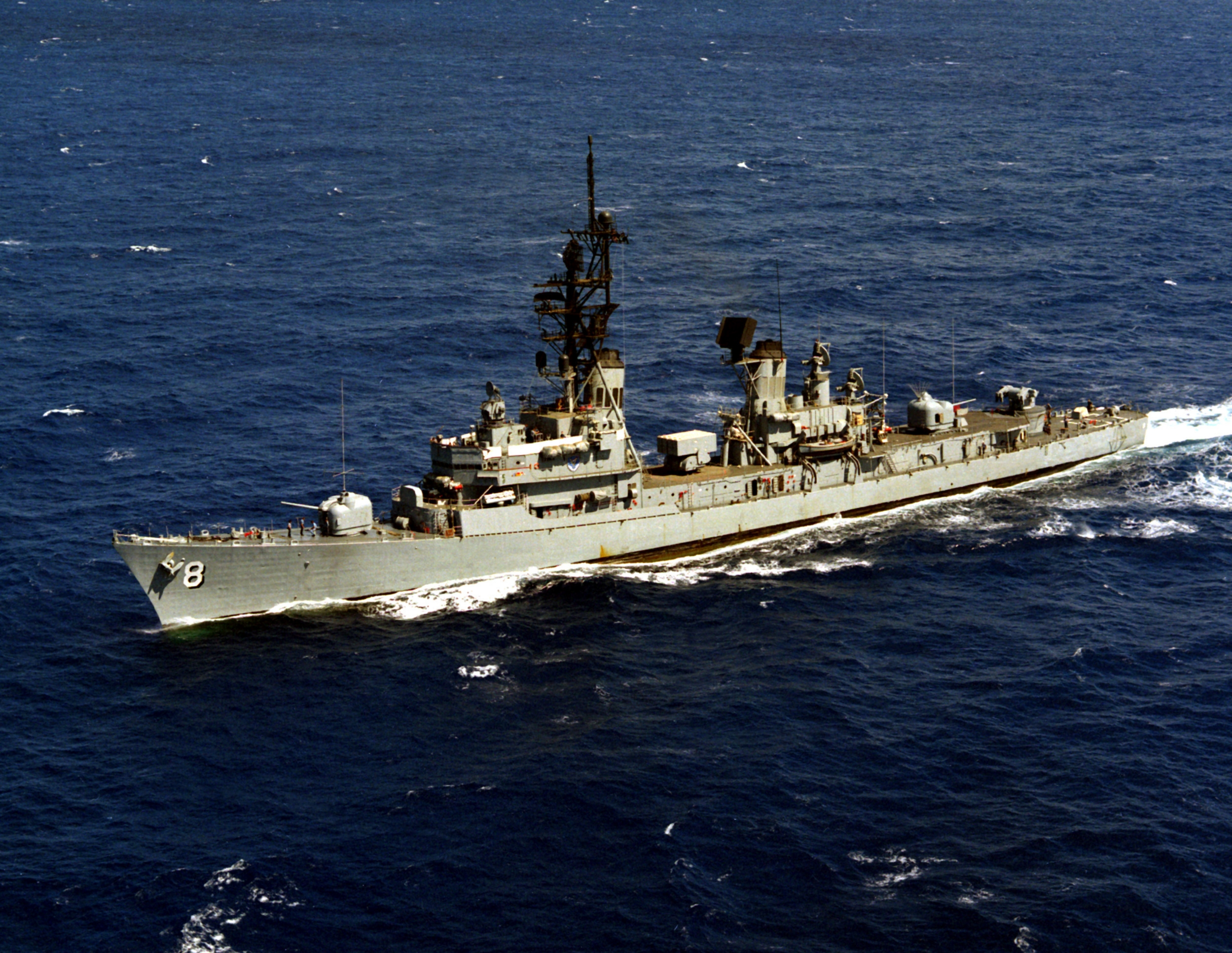 The U.S. Navy guided missile destroyer USS Lynde McCormick (DDG-8) underway on 13 July 1974.